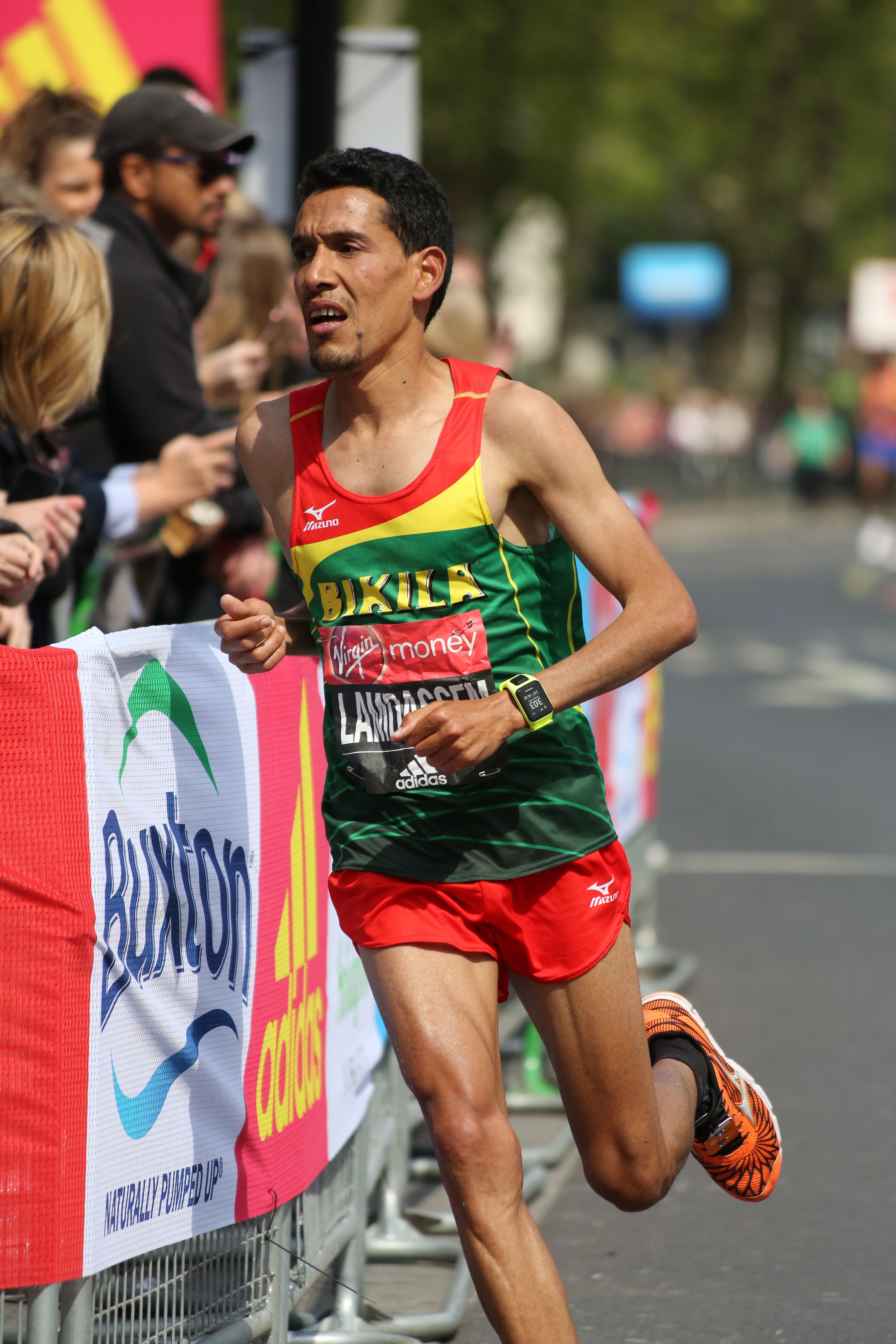 2017 London Marathon – Ayad Lamdassem